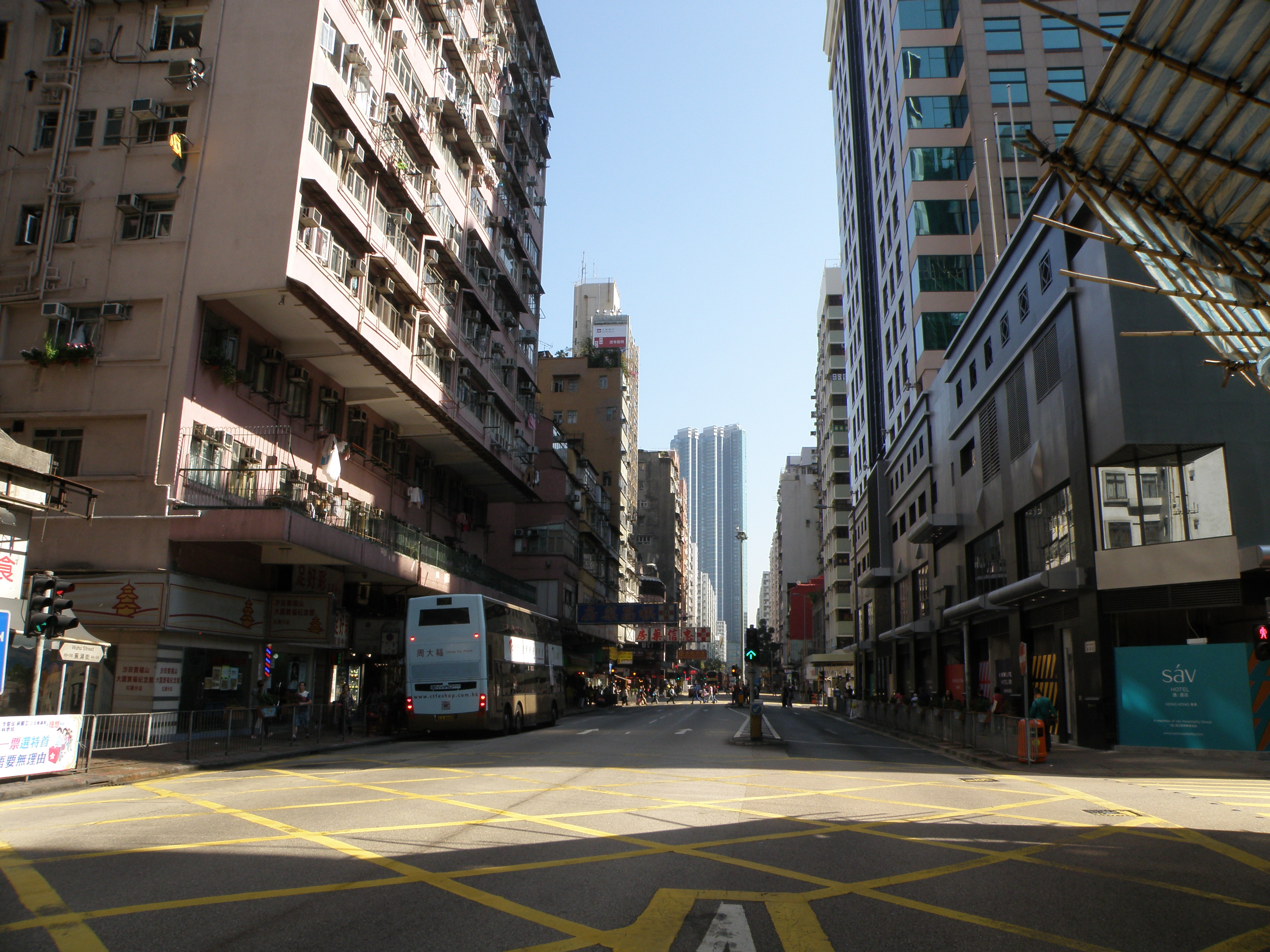 Wuhu Street in Hung Hom, Hong Kong.